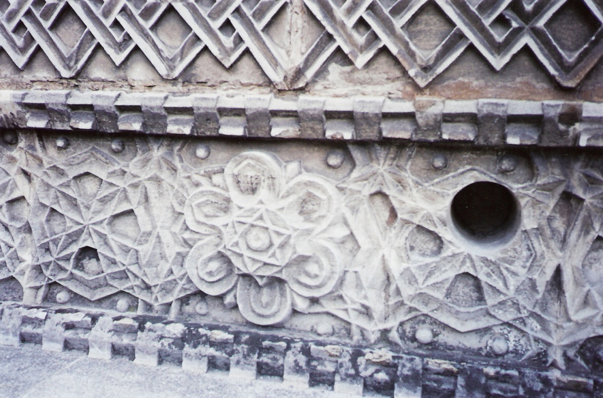 star of david in trei ierarchii church,iasi,rumania